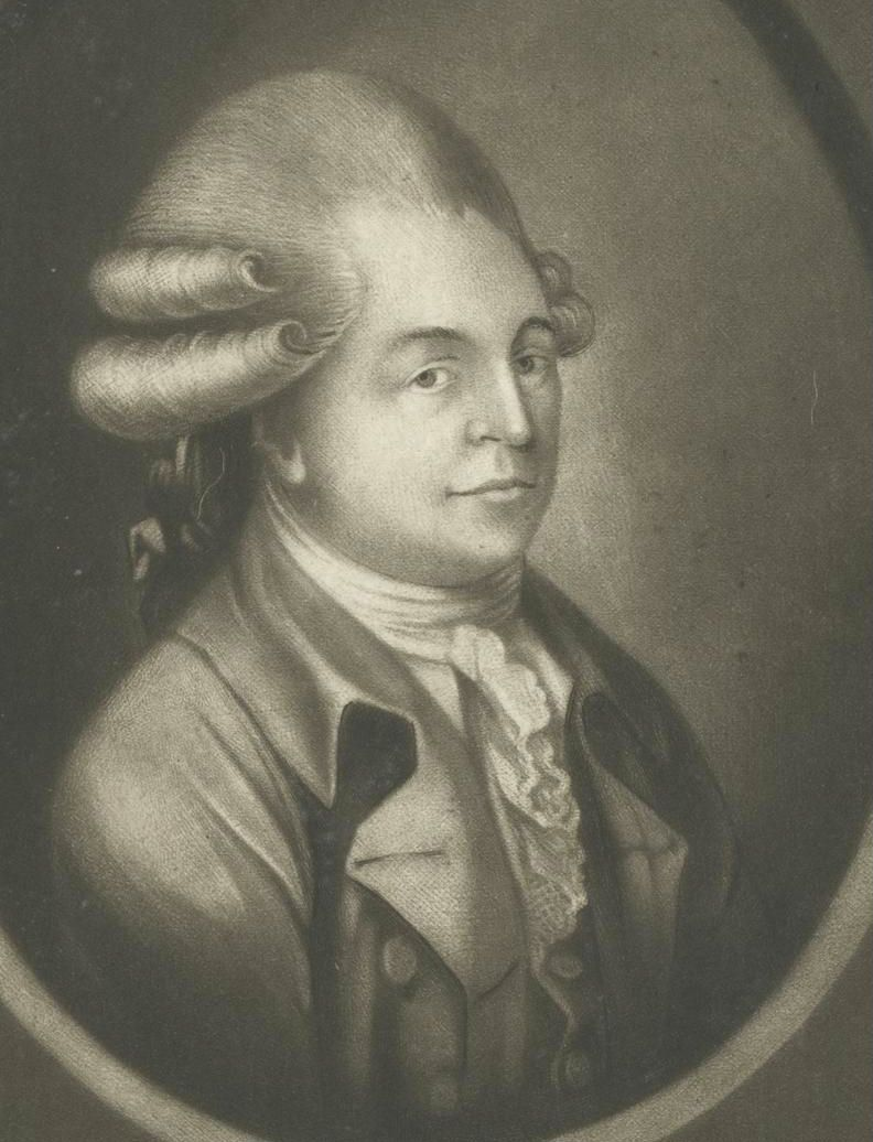 Engraving of comic actor James William Dodd (c.1740-1796), lover of actress Mary Buckley between c.1768 and c.1780. He took the parts of rakes, fops and other such men in contemporary stage comedies.